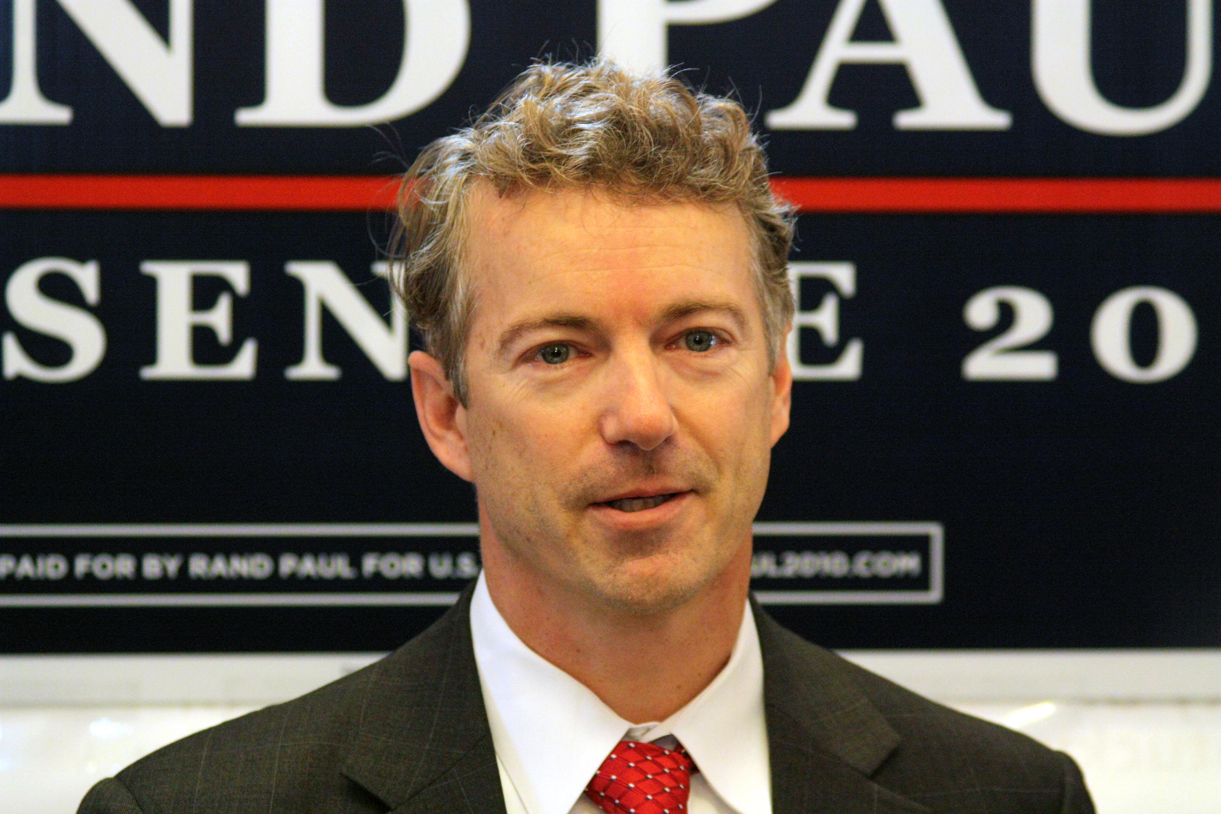 United States Senate candidate Rand Paul, at a press conference in Frankfort, Kentucky.